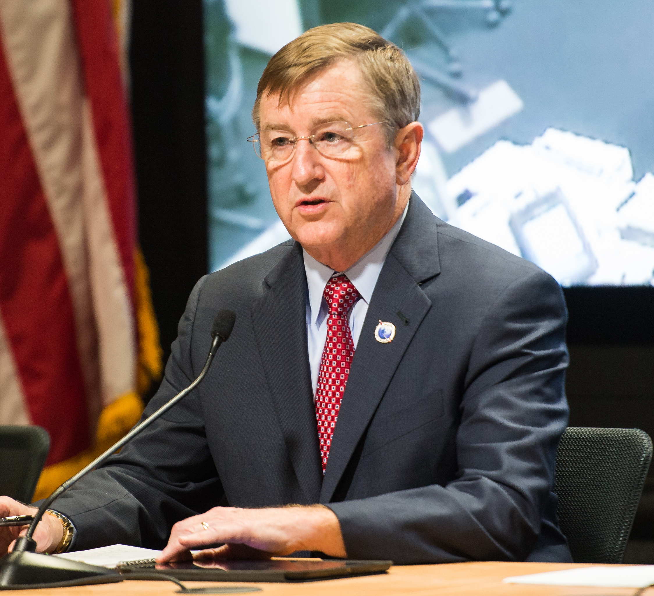 Frank Culbertson, Executive Vice President and General Manager of Advanced Program Group at Orbital Sciences Corp. is seen during a press conference held after a mishap occurred during the launch of the Antares rocket, with the Cygnus cargo spacecraft aboard, Tuesday, Oct. 28, 2014, NASA Wallops Flight Facility, Virginia. Cygnus was on its way to rendezvous with the space station. The Antares rocket lifted off to start its third resupply mission to the International Space Station, but suffered a catastrophic anomaly shortly after liftoff at 6:22 p.m. EDT.